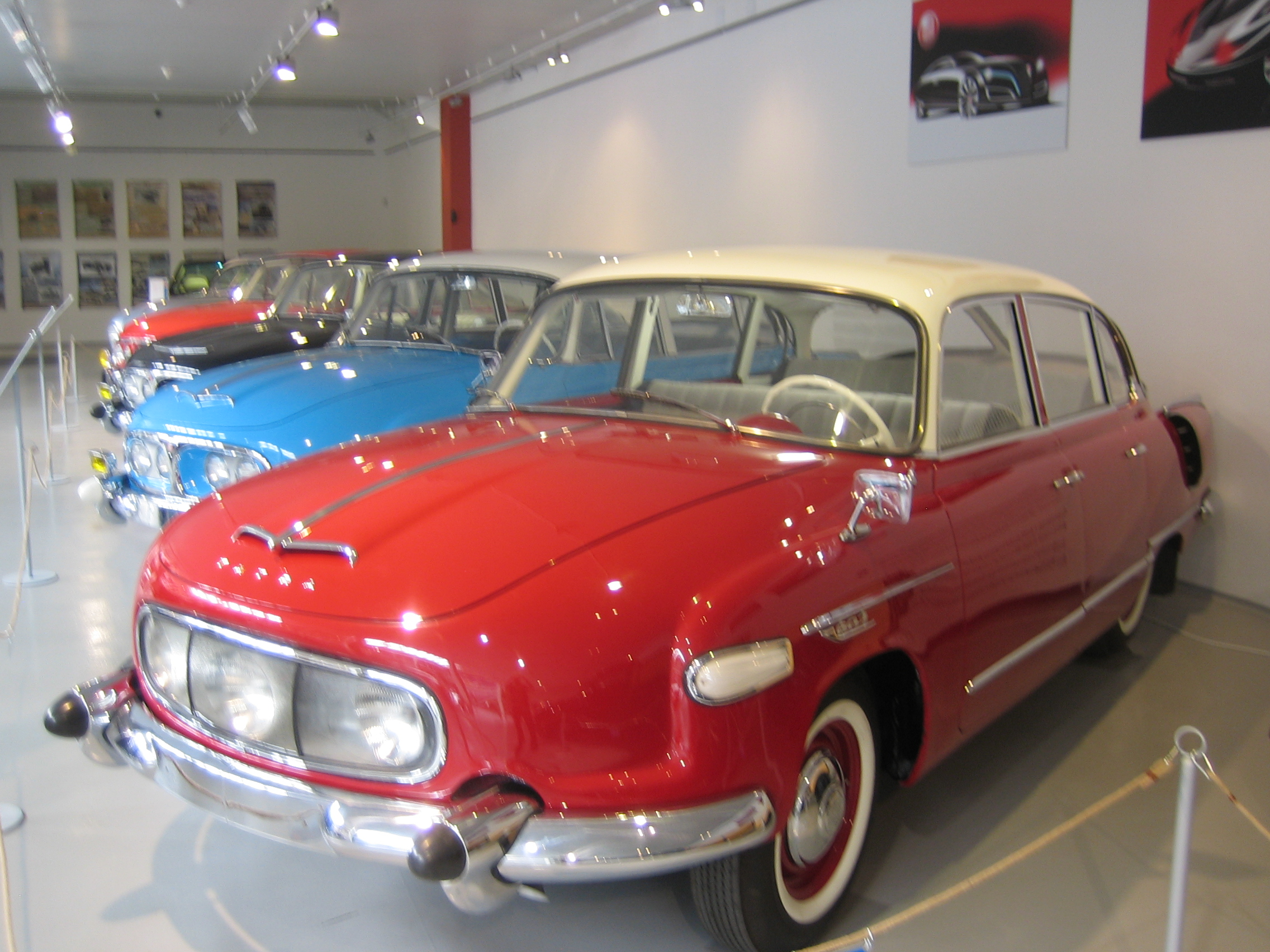 Tatra 603 in Veteran Arean Olomouc